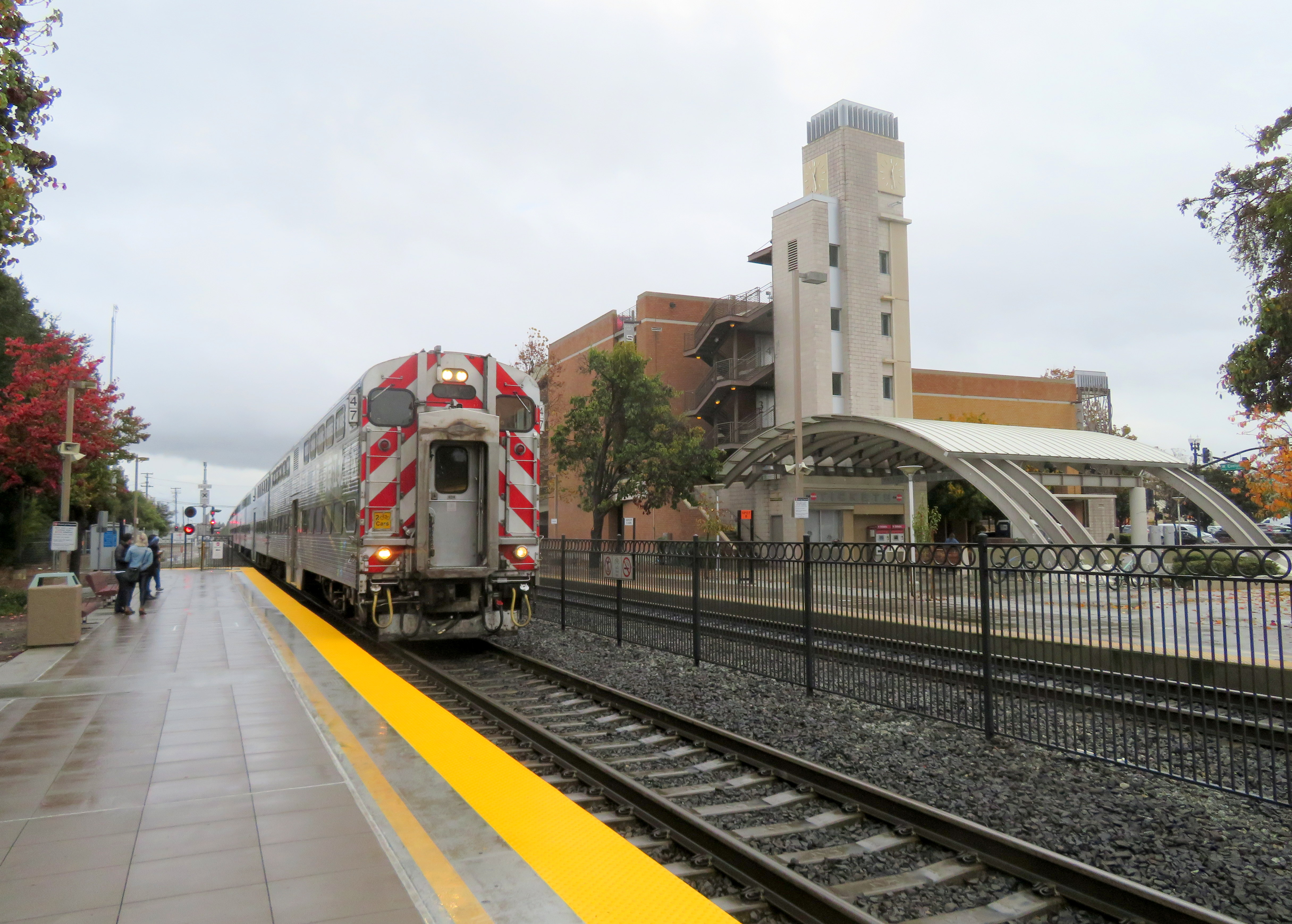 A northbound train arriving at Sunnyvale station in November 2018